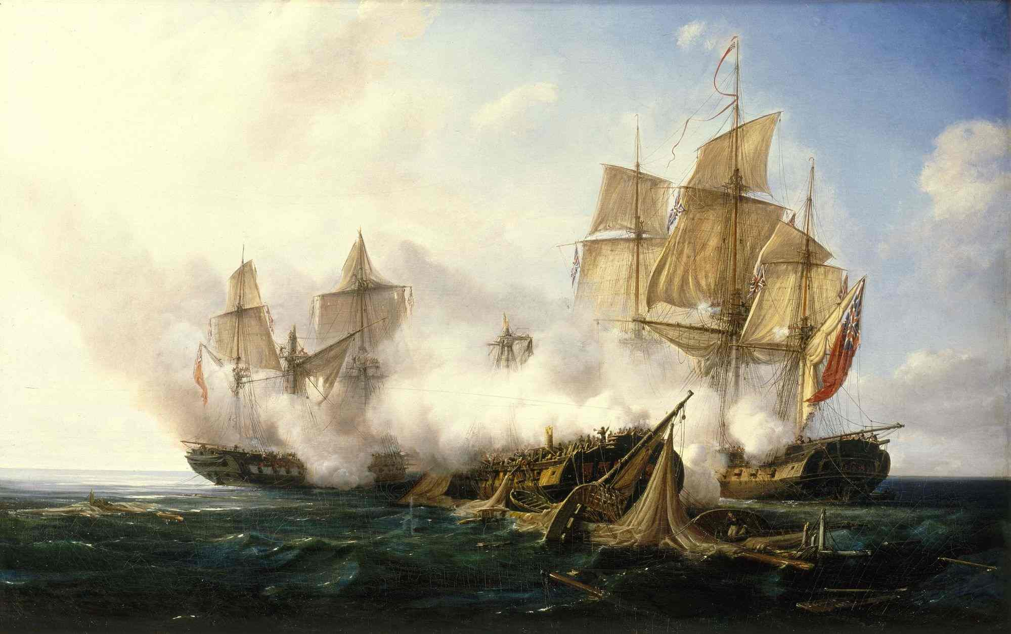 French frigate Pomone fighting the HMS Alceste and Active during the Action of 29 November 1811